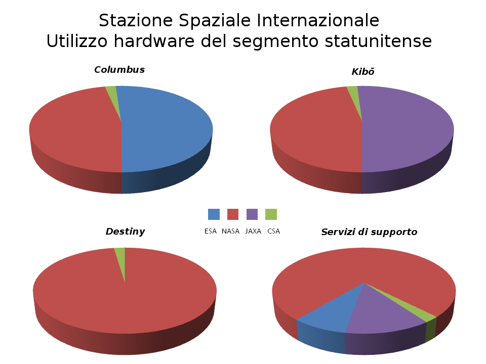 Four pie charts to show the allocation of International Space Station hardware between NASA, ESA, CSA and JAXA. The allocation is as follows: *Columbus - 51% for ESA, 46.7% for NASA and 2.3% for CSA. *Kibō - 51% for JAXA, 46.7% for NASA and 2.3% for CSA. *Destiny - 97.7% for NASA and 2.3% for CSA. *Crew time, electrical power and rights to purchase supporting services (such as data upload & download and communications) are divided 76.6% for NASA, 12.8% for JAXA, 8.3% for ESA, and 2.3% for CSA.